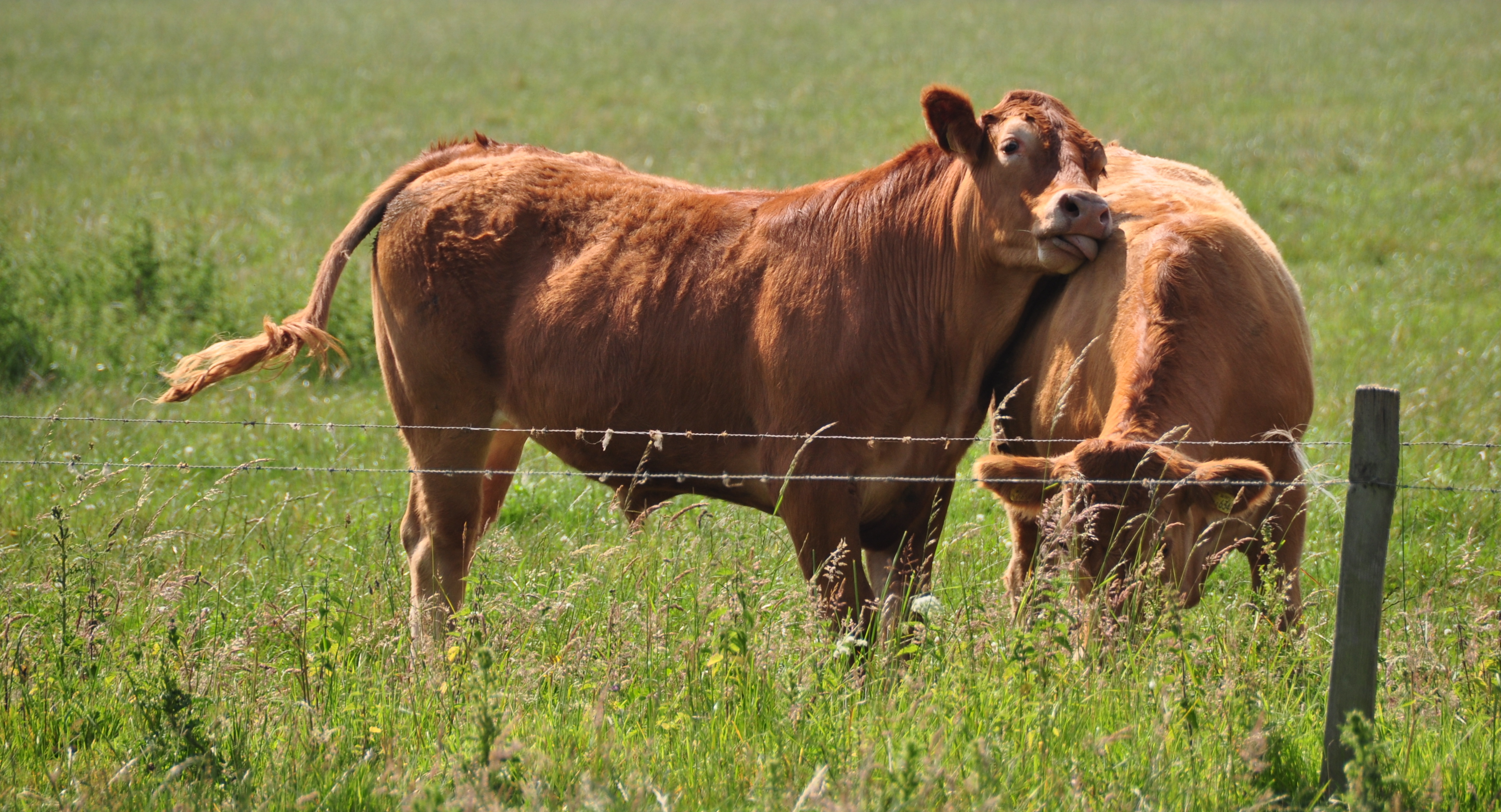 A couple of cows in a field in Devon.